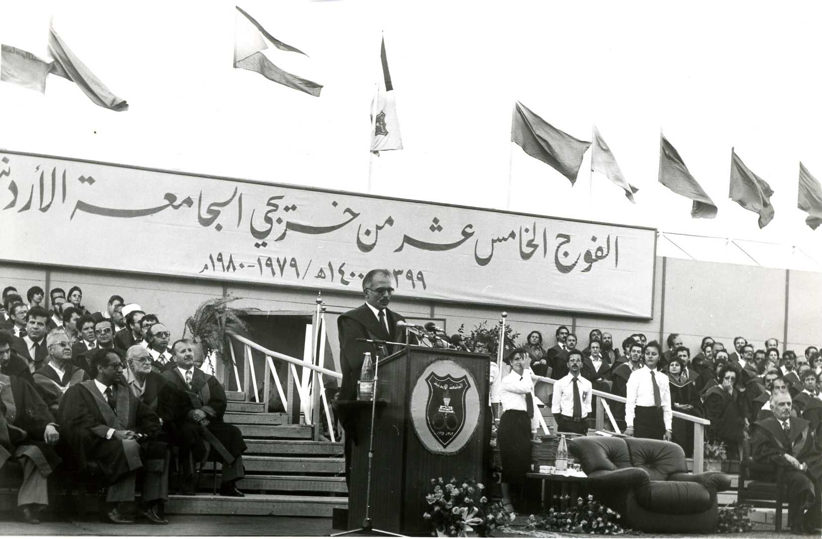 University of Jordan Photo Archive